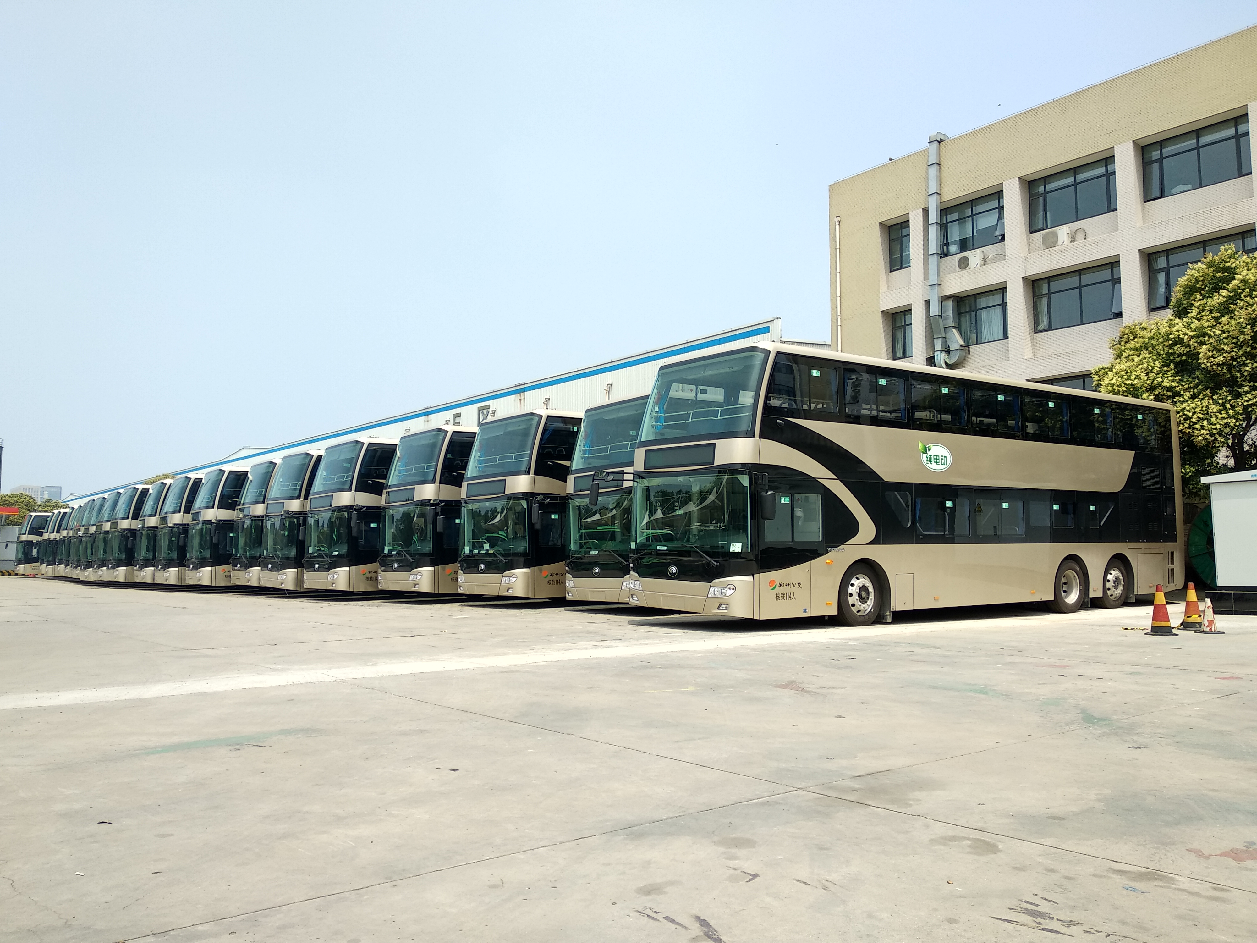 These 20 big fellows in "tuhao gold" are new members of Zhengzhou Bus.